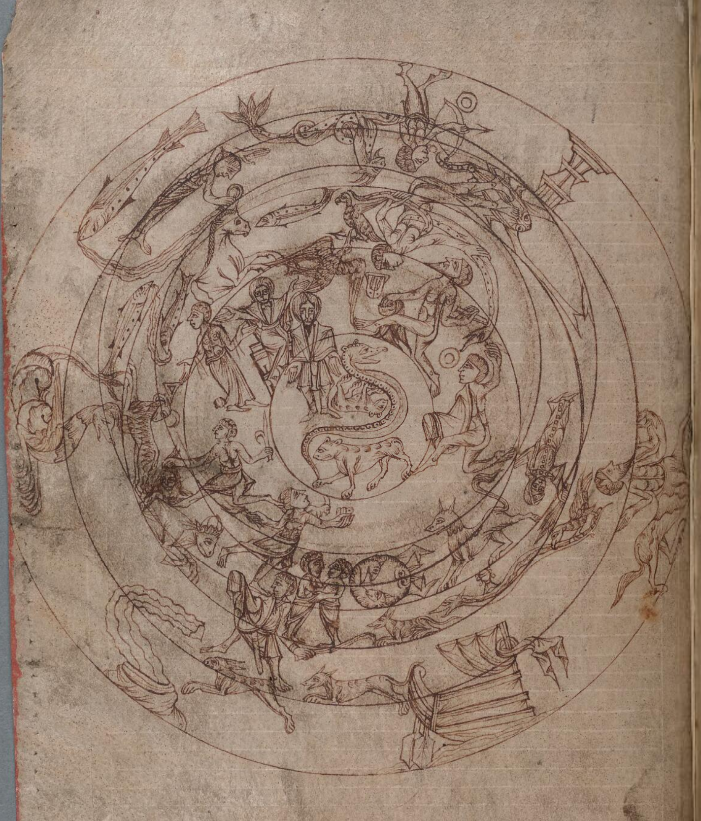 The oldest scientific manuscript in the National Library the volume contains various Latin texts on astronomy. The volume, written in Caroline minuscule, consists of two sections, the first (ff. 1-26) copied c. 1000, in the Limoges area of France, probably in the milieu of Adémar de Chabannes (989-1034), whilst the second (ff. 27-50), from a scriptorium in the same region, may be dated c. 1150.